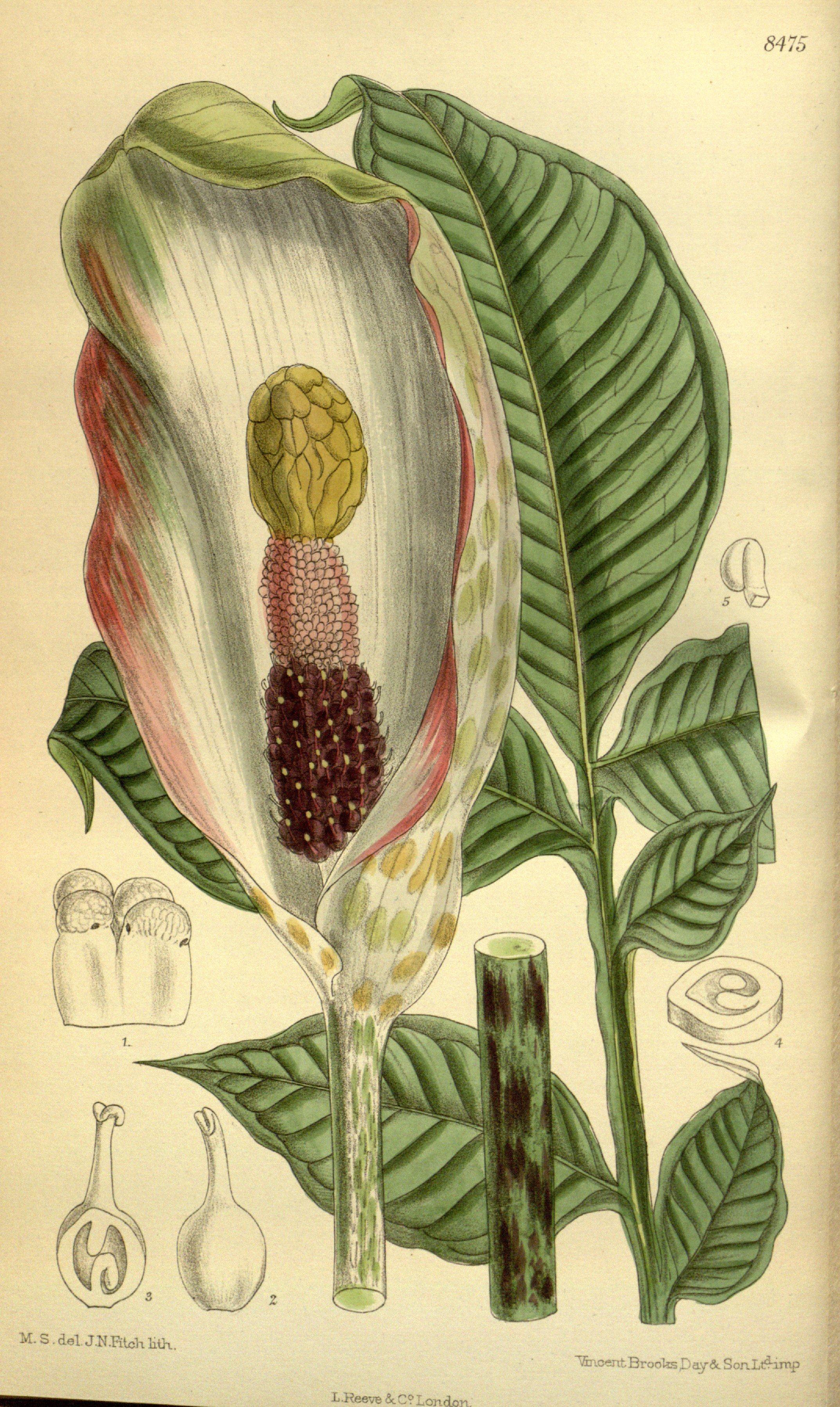 Amorphophallus corrugatus, Araceae